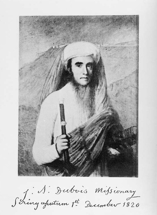 Thomas Hickey, Madras: Abbé J.A. Dubois. French missionary Jean-Antoine Dubois (1766-1848)